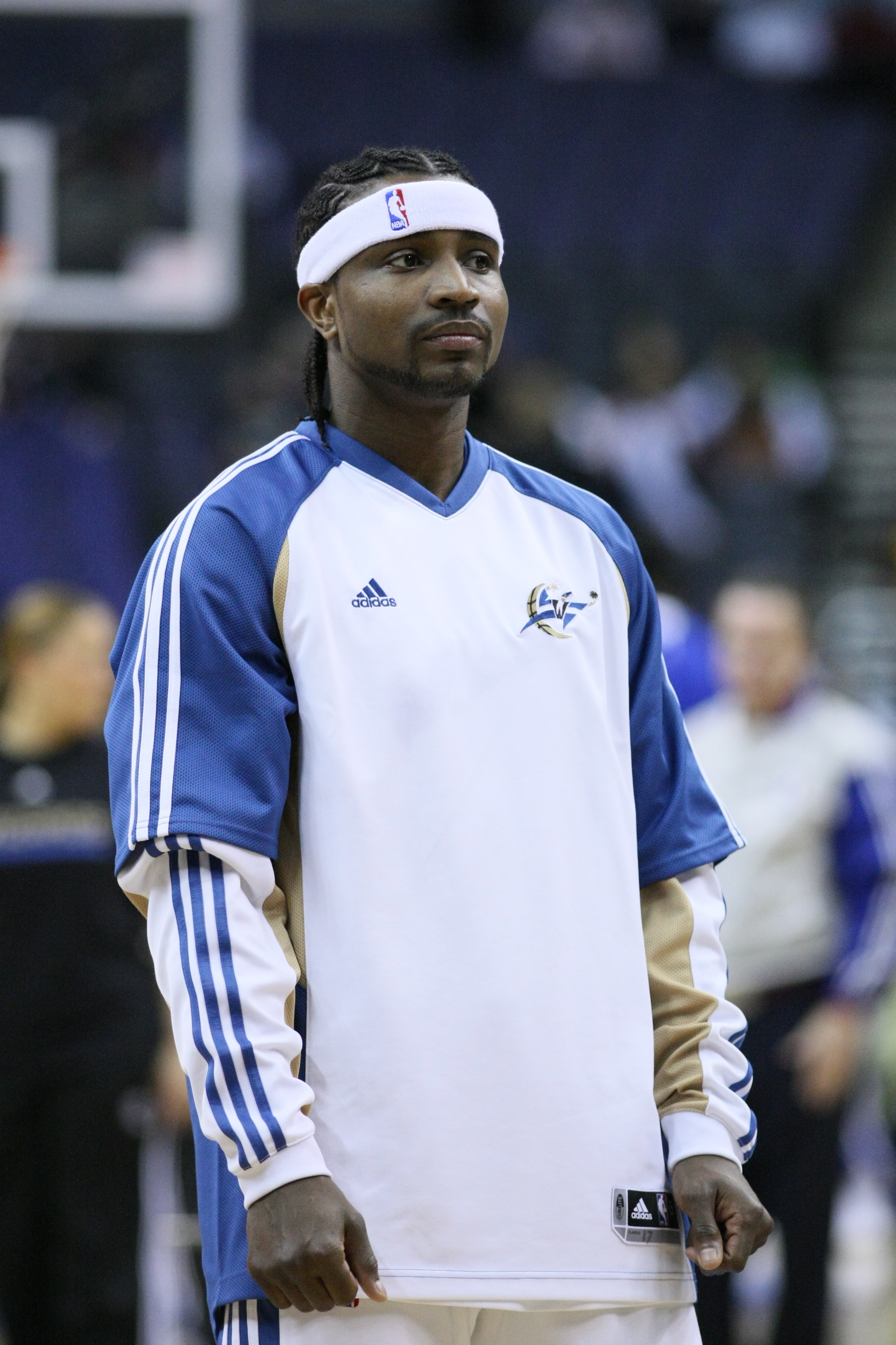 Dee Brown, Washington Wizards, 2008-9